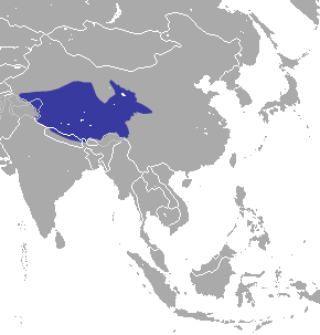 Plateau Pika (Ochotona curzoniae) range